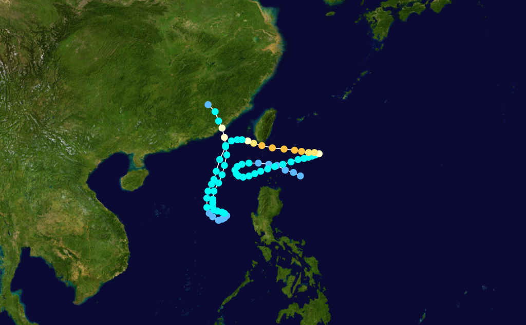 Typhoon Nat 1991 track. Uses the color scheme from the Saffir-Simpson Hurricane Scale.